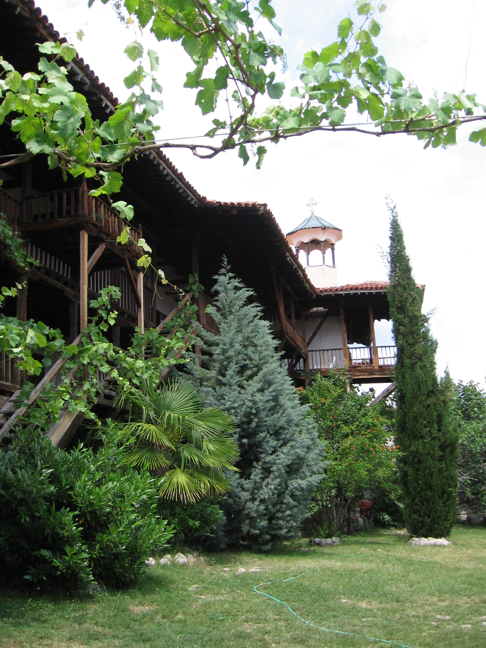 The Rozhen monastery near Melnik